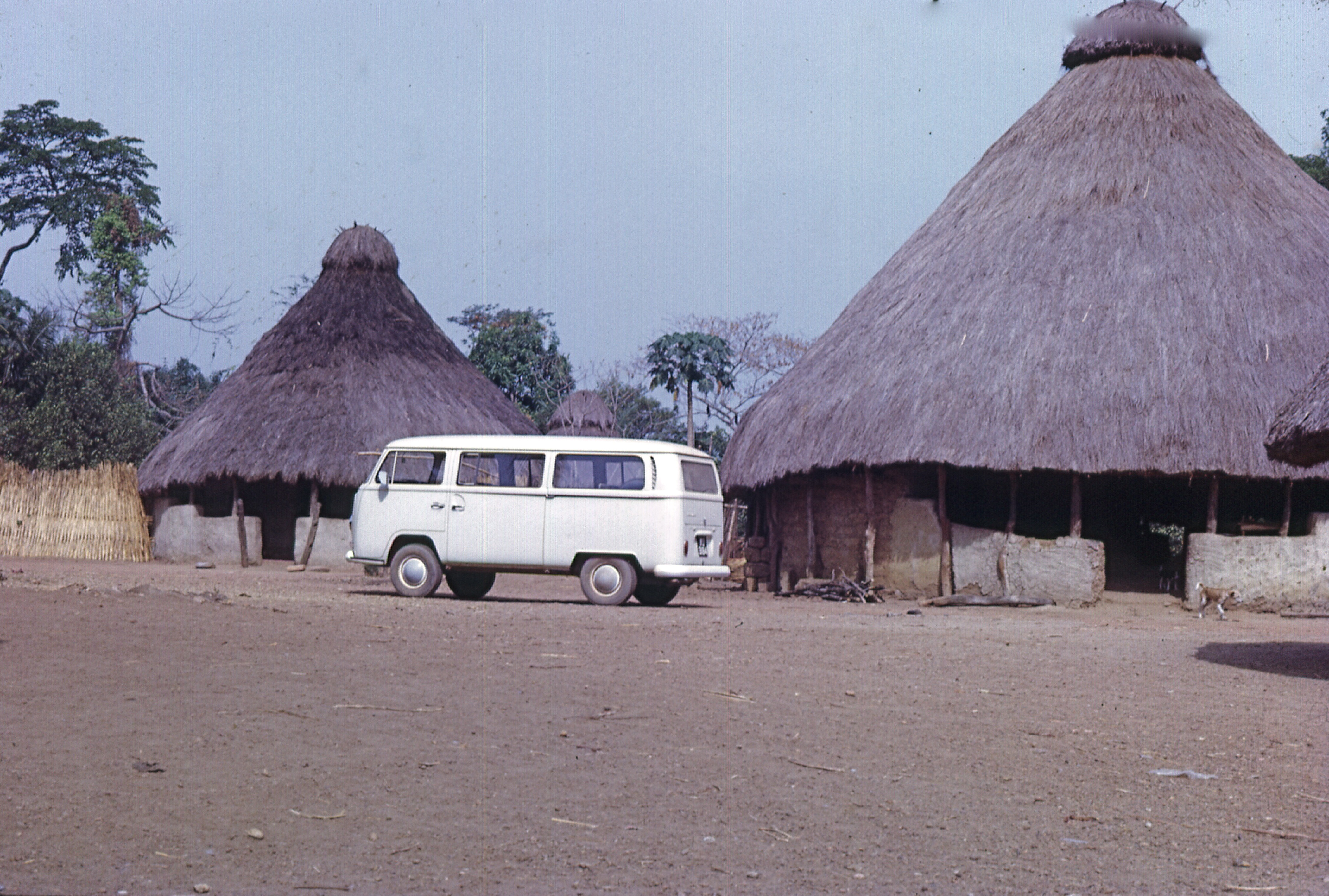 Traditional structures near Kamabai, Sierra Leone (west Africa) 1968. That's my VW Bus parked in front. This was on the road from Makeni to Kamabai. They let me park here since this was near the trailhead to Kamabai Rock Shelter (an archaeological site) and to Bumban (a famous political and trade centre).